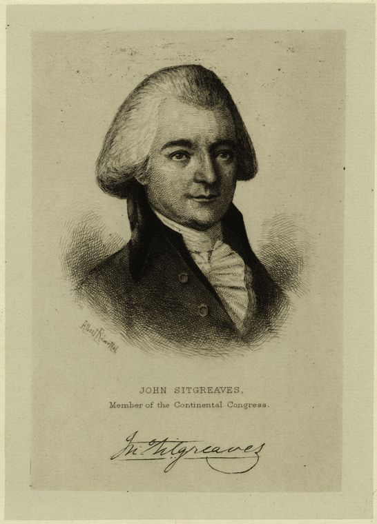 John Sitgreaves, Delegate to Continental Congress